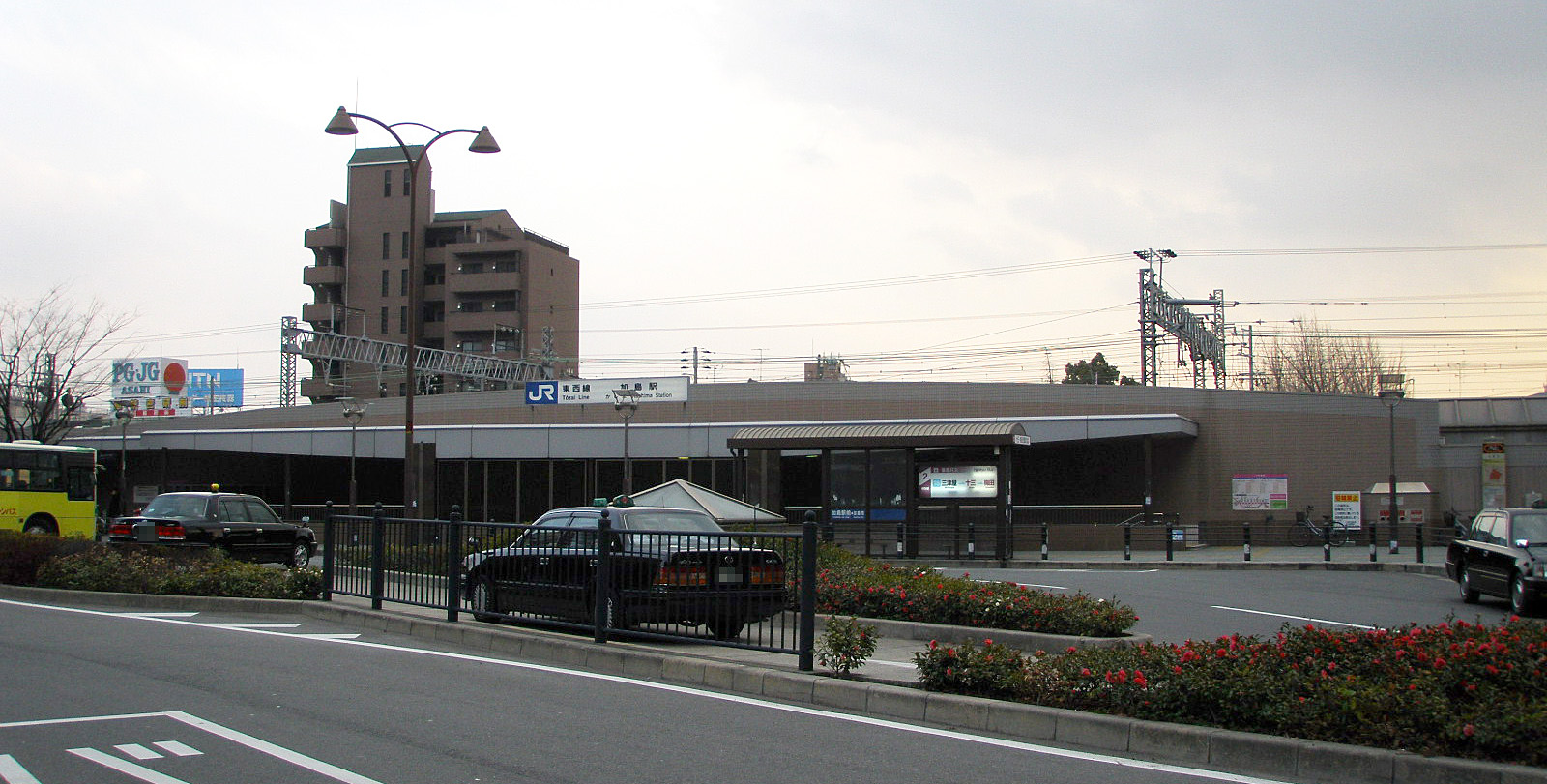 West Japan Railway JR Tōzai Line Kashima Station Building North Gate